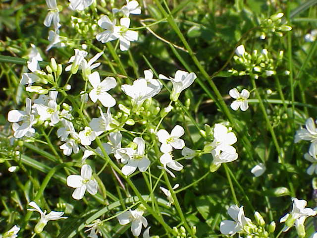 Species: Arabis procurrens Family: Cruciferae Image No. 2